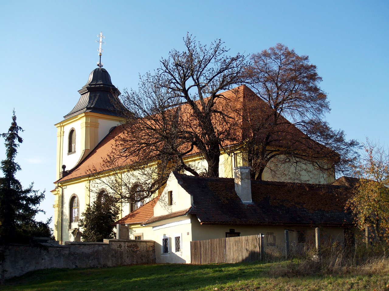 Church of St. Wenceslas the Martyr, Mikulovice (Pardubice District), Czech Republic